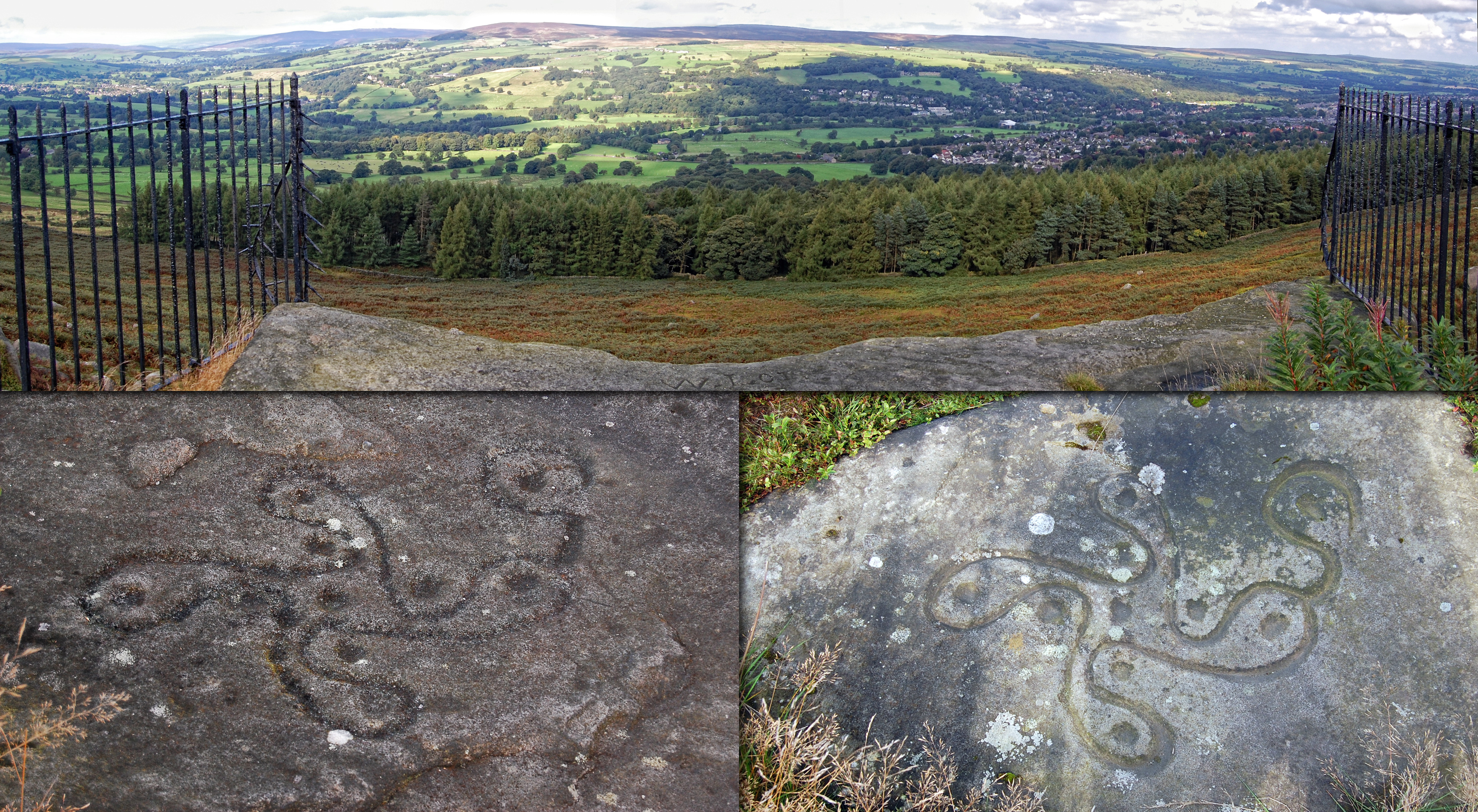 Situated on Woodhouse Crag on Ilkley Moor, the stone has a double outline of a swastika with ten cups fitting within the five curved arms. The design is similar to art of the Celtic Iron Age period but could have been carved as early as the Bronze Age, as with other markings in the vicinity. It is pictured here on the bottom left of the image. The right hand carving is a Victorian imitation, situated beside the original, to better illustrate its appearance. What the stone's design means is unclear, although it is known that in many ancient civilizations the swastika is recognised as a symbol relating to the sun.